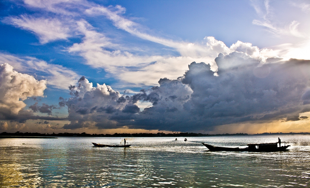 Meghna River, Bangladesh.